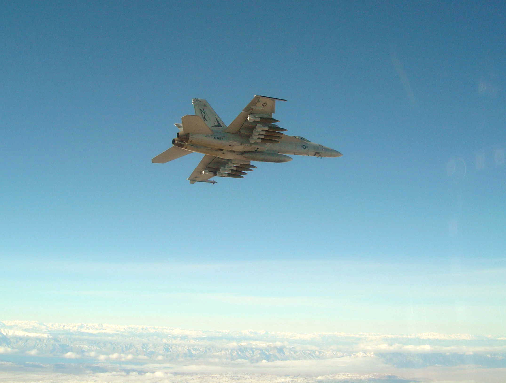 Naval Air Station Fallon, Nev. (Feb. 5, 2004) – An F/A-18E “Super Hornet” assigned to the “Eagles” of Strike Fighter Squadron One One Five (VFA-115) carries ten Mark 83 bombs over the Naval Air Station Fallon range. VFA-115 is conducting exercises at Naval Air Station Fallon. U.S. Navy photo by Lt. j.g. Matthew Abbot. (RELEASED)